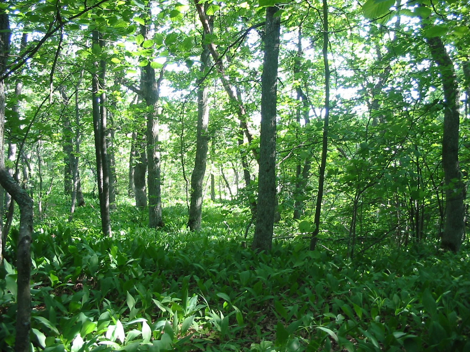 Muhkurinmäki in Turku, Finland